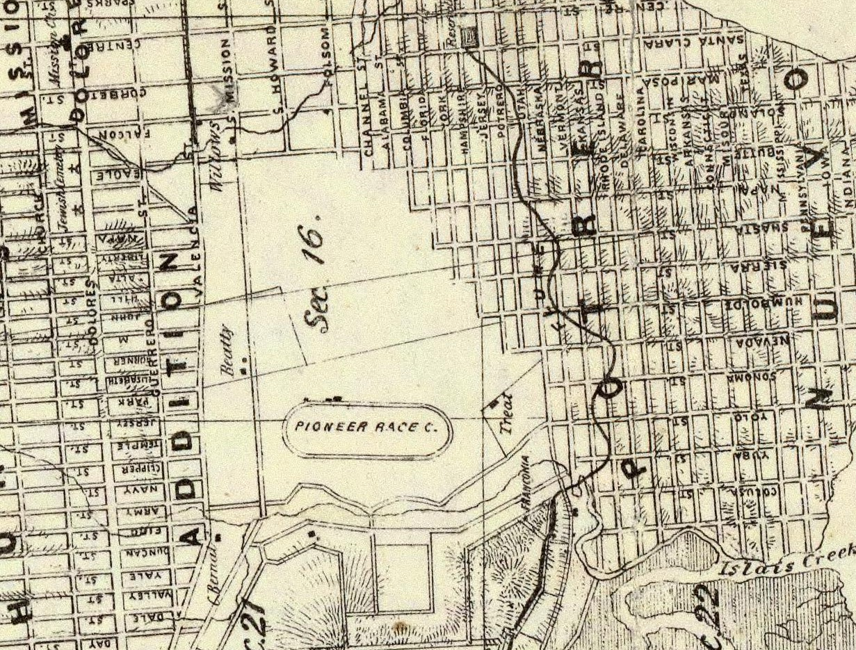 1861 Wackenreuder Map of San Francisco, showing Pioneer Race Course in the Mission District. Complete map is available in the David Rumsey Map CollectionVitus Wackenreuder was a Swiss German surveyor with offices in San Francisco and San Mateo. This detail of his 1861 map shows the Pioneer Race Track north of Precita Creek with some streets.